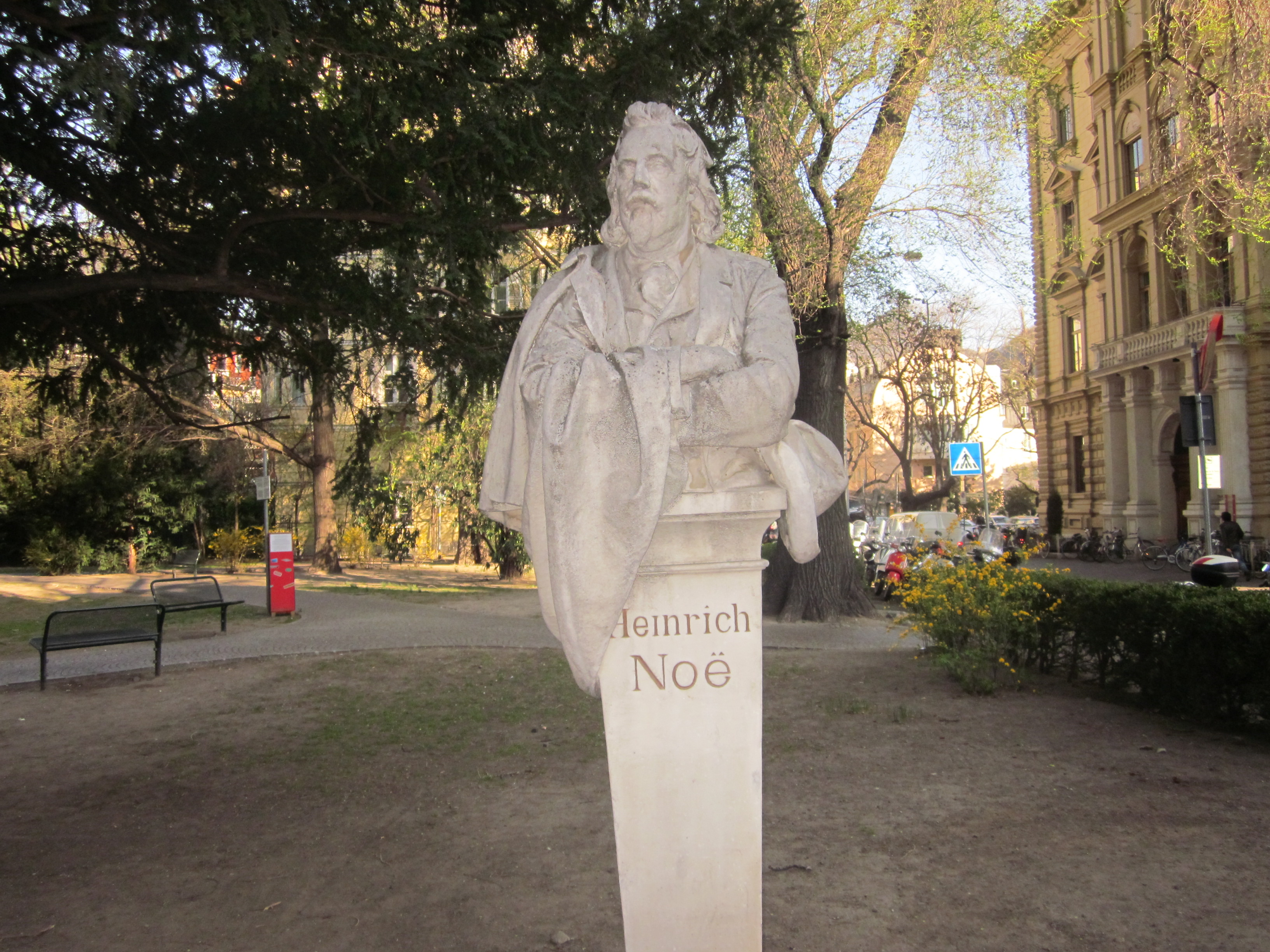 Bust of Heinrich Noë by Andreas Kompatscher near Bolzano Train Station